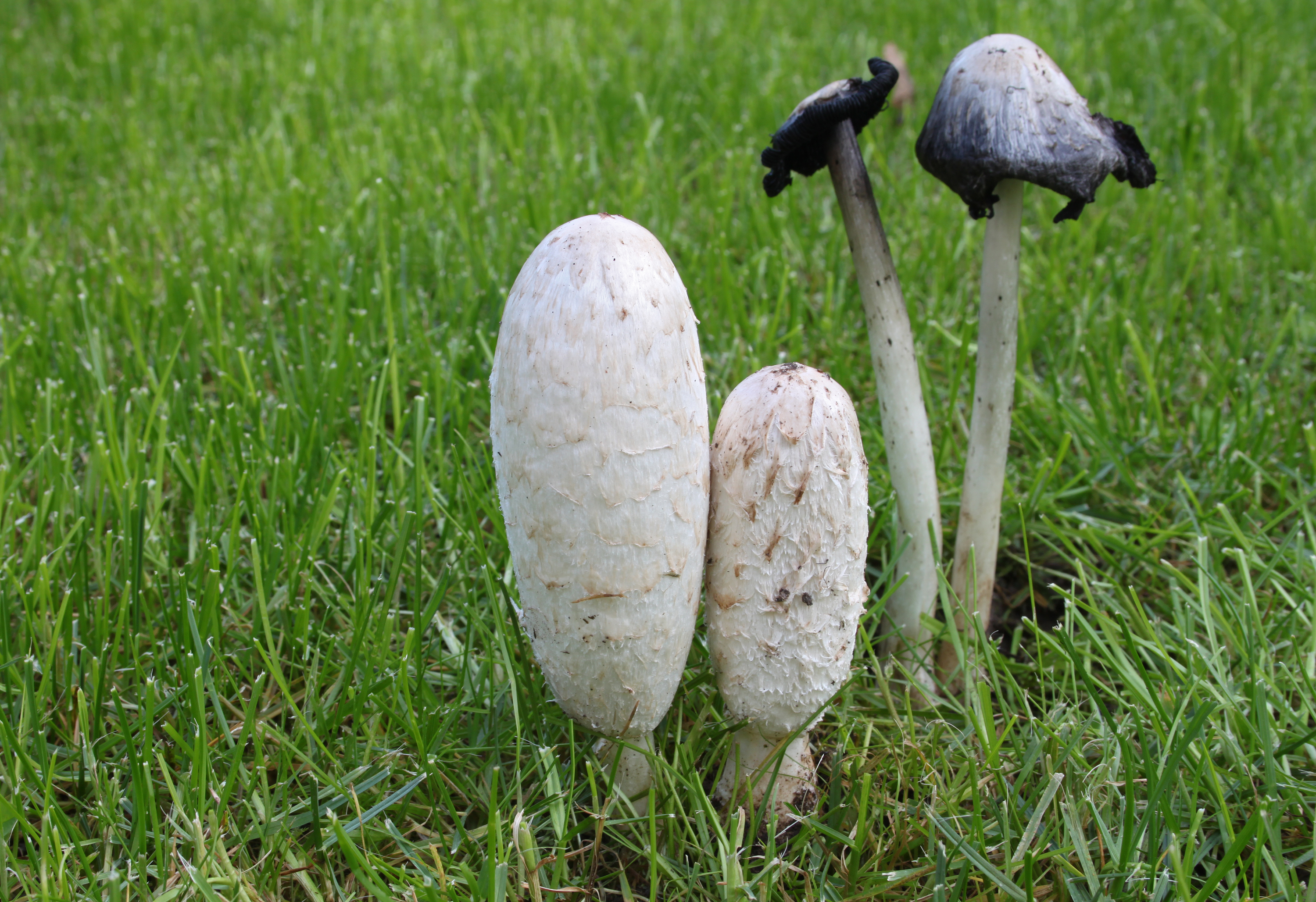 Shaggy Ink Cap, Lawyer's Wig or Shaggy Mane Coprinus comatus, Family: Coprinaceae, Location: Germany, Laupheim, Rißtissen